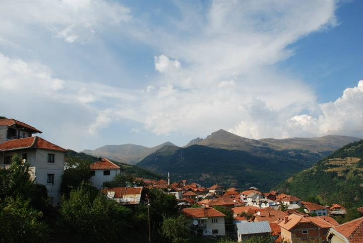 Shipkovica-View From East Tetovo Rep. Of Macedonia